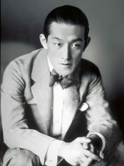 Actor of the Japanese Shingeki, Tomoda, Kyosuke (1899-1937)